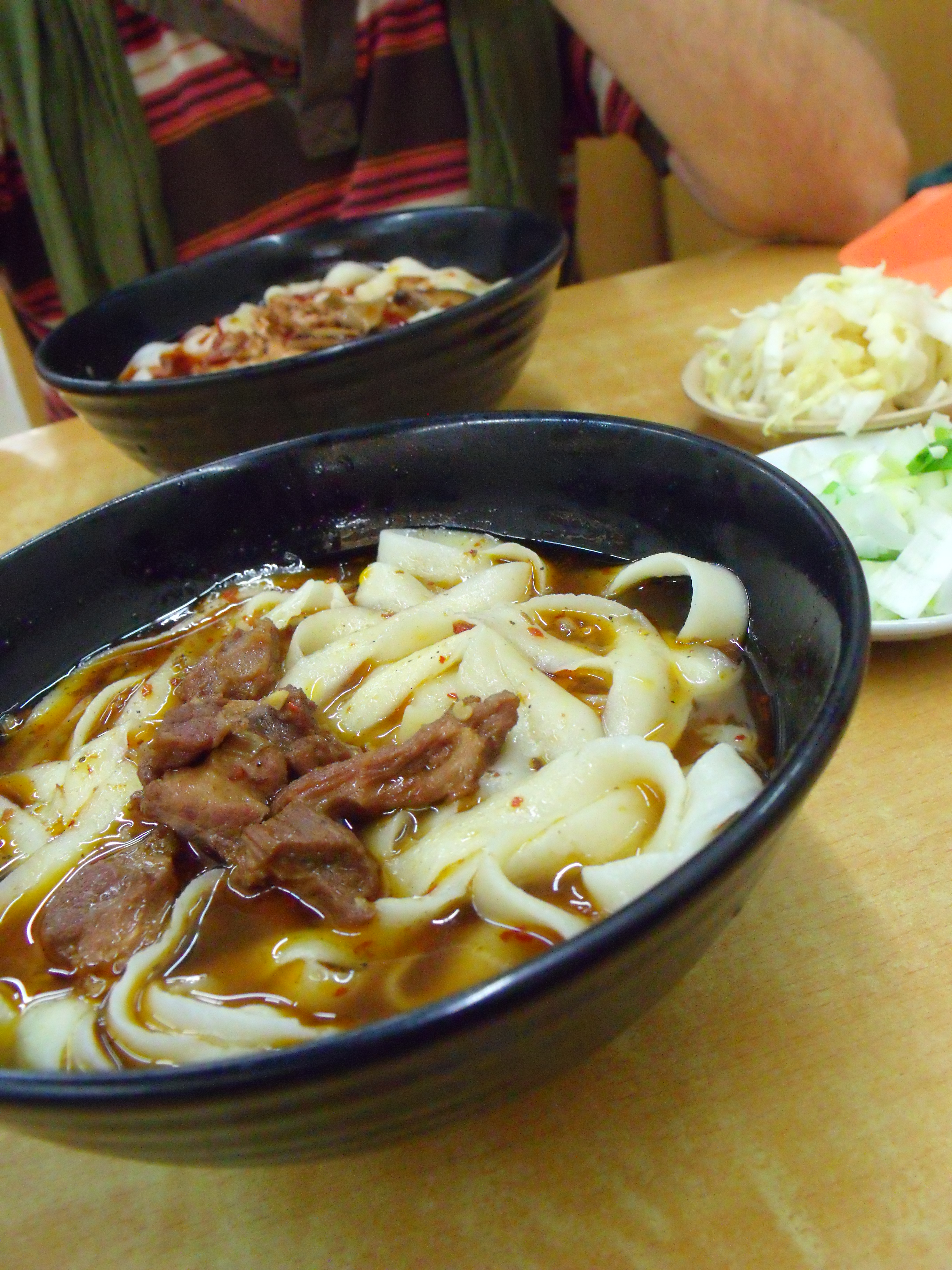 Fideos · Datong